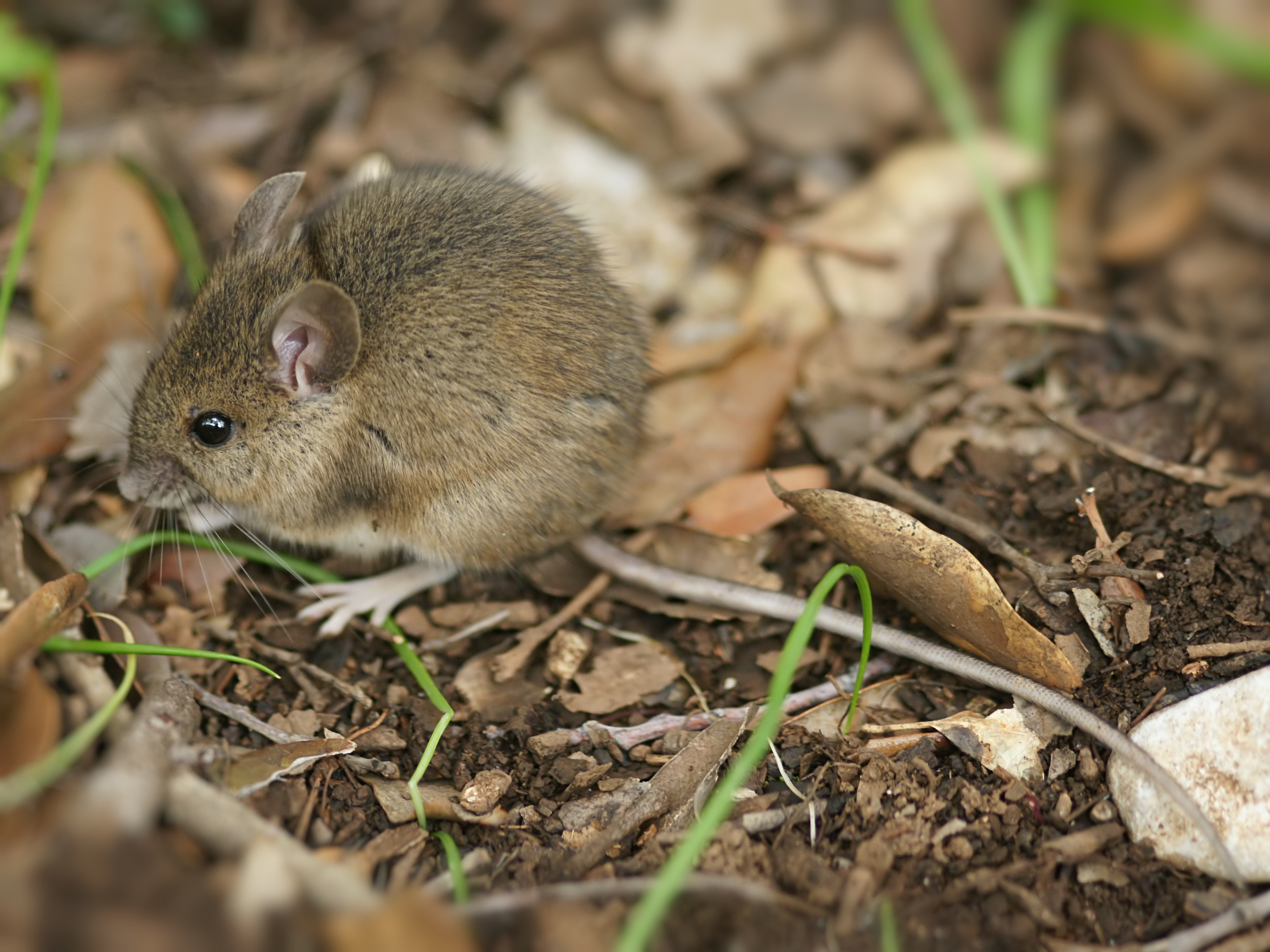 Wood mouse on the way to Su Gorropu, Sardinia, Italy.